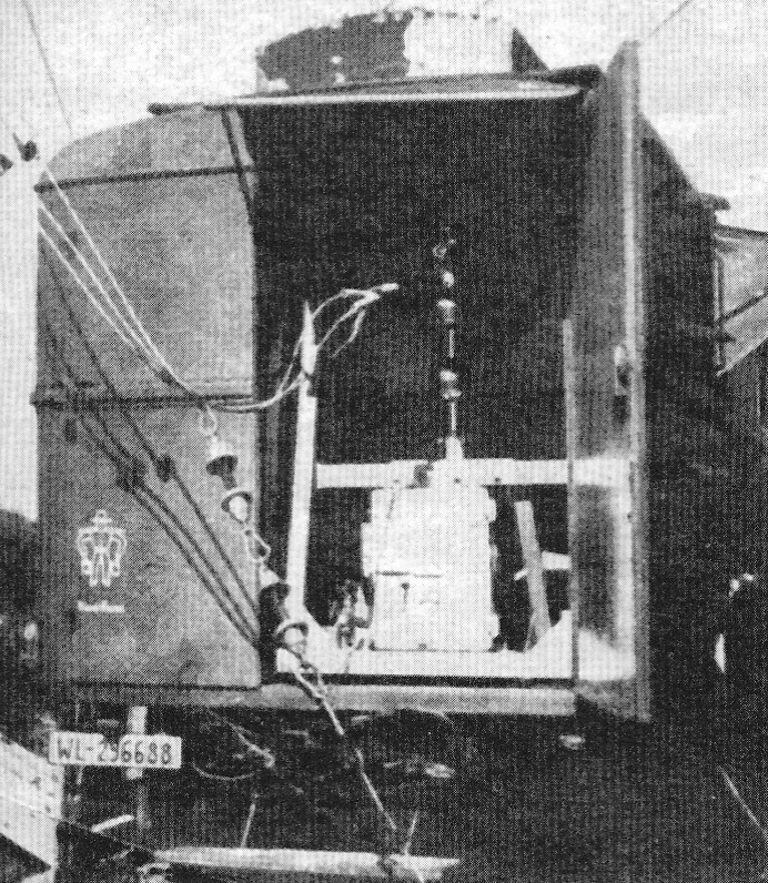 The back of the antenna tuning lorry of the German mobile radio sender L (Lappland).